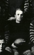 Paddy Driscoll